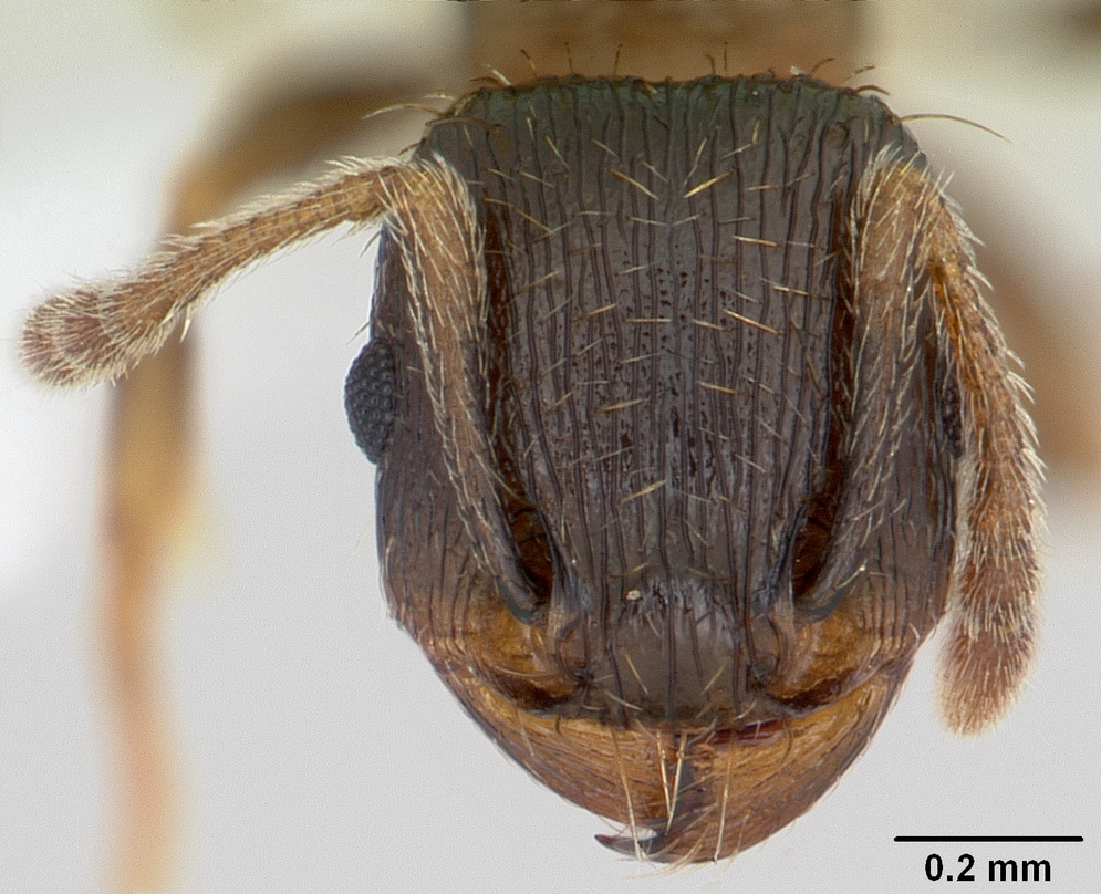 Head view of ant Tetramorium tsushimae specimen casent0103102.